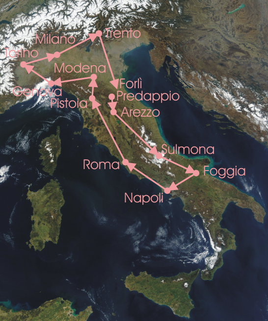 Map of Italy highlighting the stages of 1928 Giro d'Italia